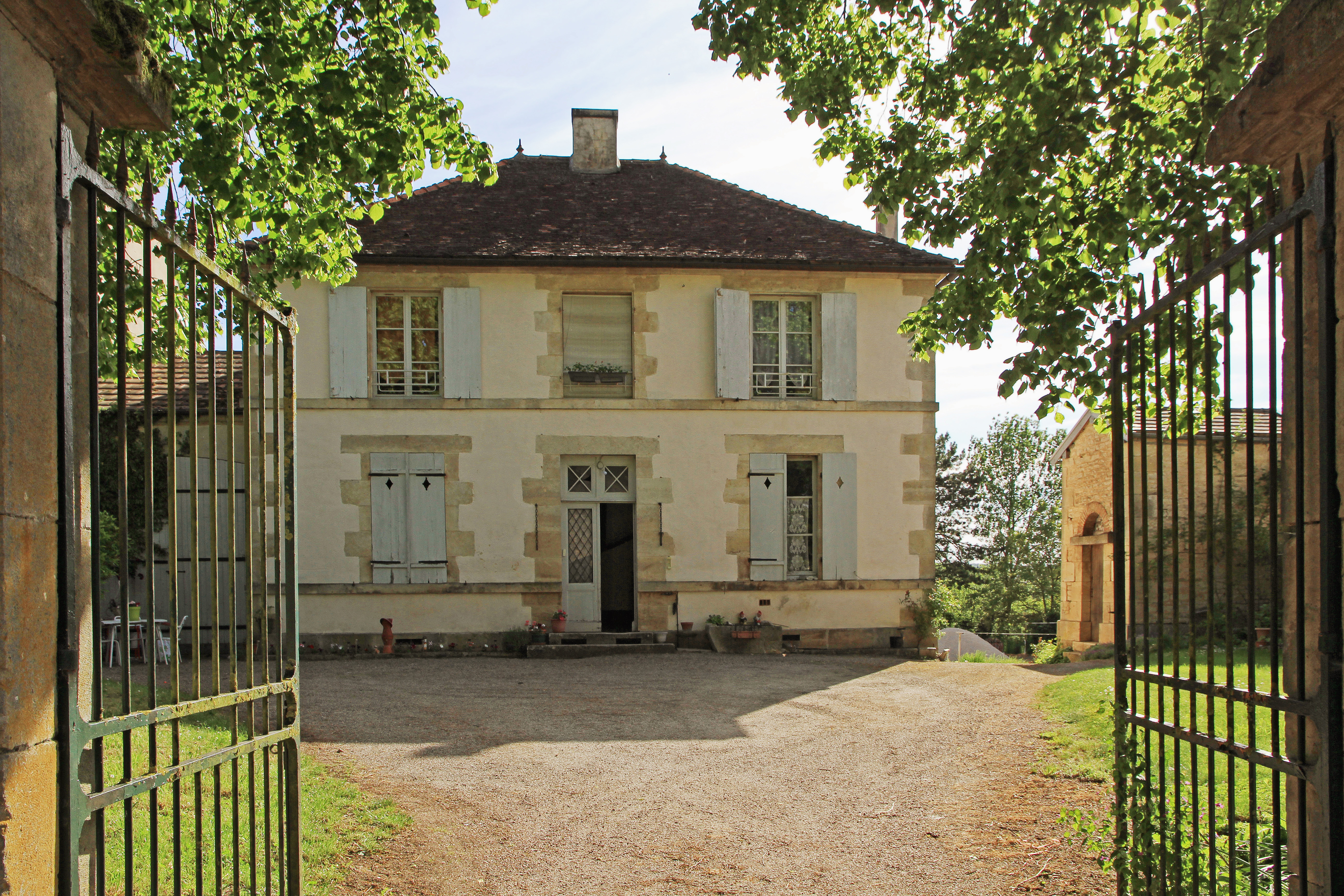 Mairie de Jours-lès-Baigneux